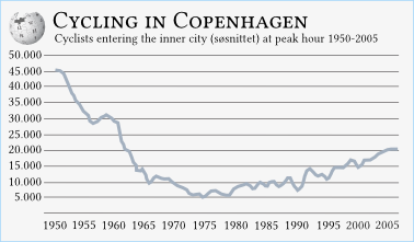 Graph of cyclists showing bicycle traffic into the inner city (Danish: Søsnittet) during peak hour (8-9am). This is PNG version of the SVG version, uploaded because of formatting issues.